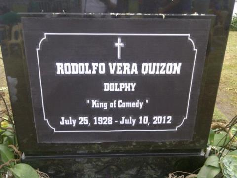 Dolphy's Tomb held in The Heritage Park, Taguig City, Philippines